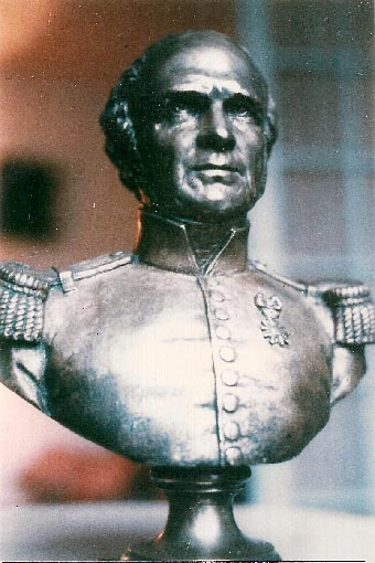 Bust of Colonel Joseph Boissin (made circa 1840)